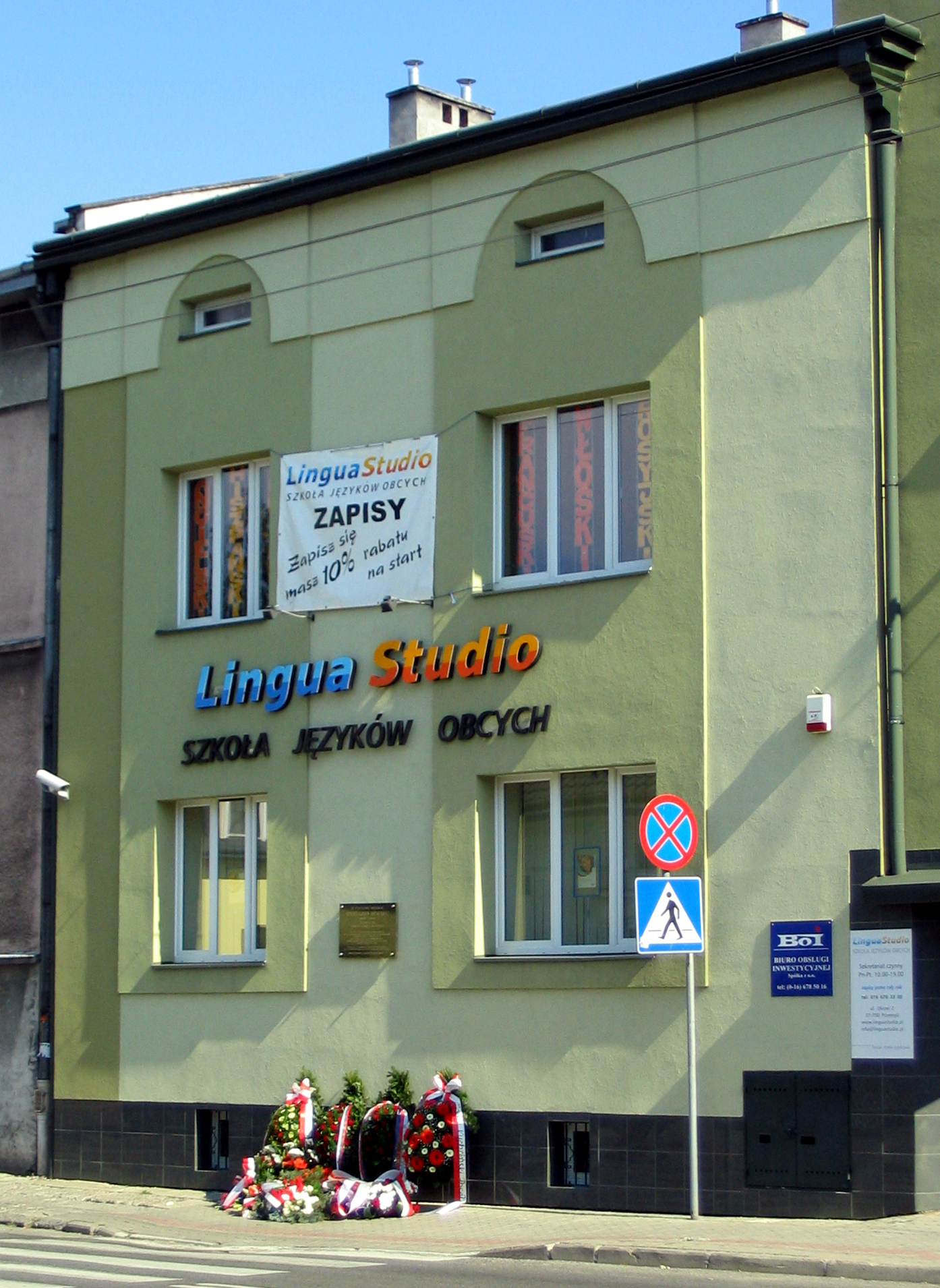 The house where Ryszard Siwiec was living - Przemyśl, Okrzei 2 St.